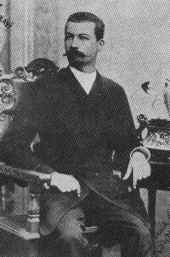 French explorer and colonialist Marcel Treich-Laplène (1860-1890)